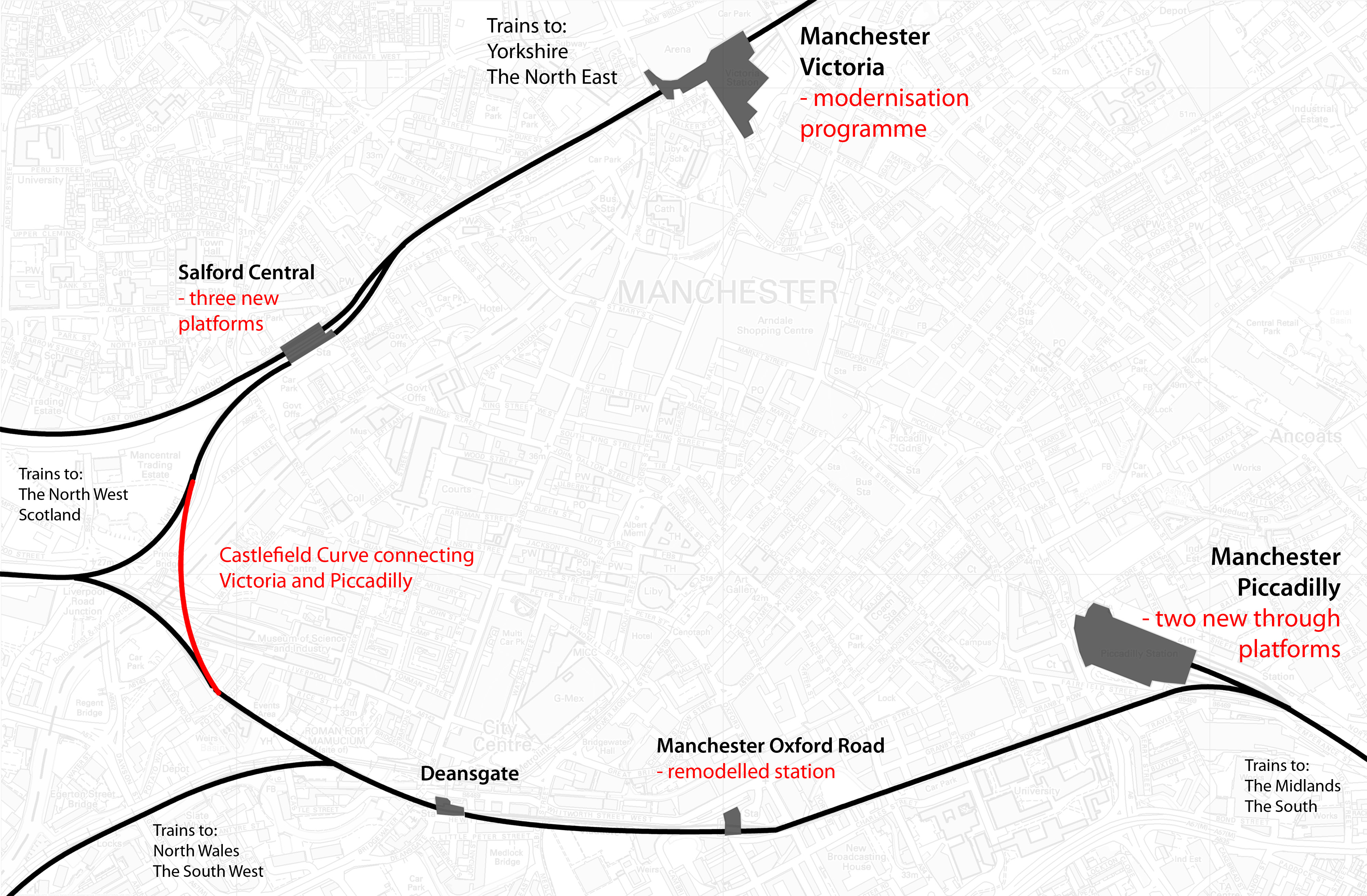 Schematic maps showing rail improvements through Manchester as part of the Northern Hub scheme (including the Ordsall Chord, also known as the Castlefield Curve, marked in red)